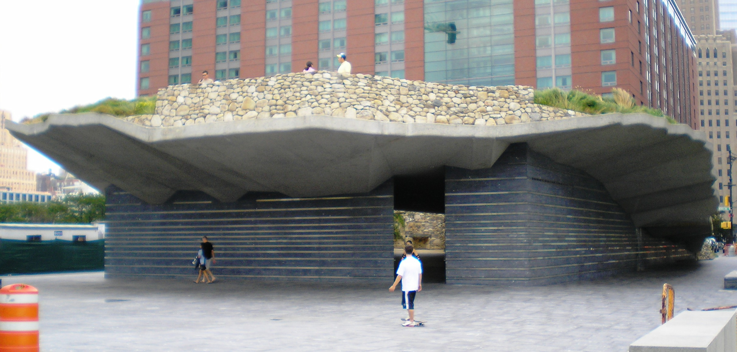 The author of this photograph is me, David Shankbone. Irish Hunger Memorial, 20 August 2006. New York City.